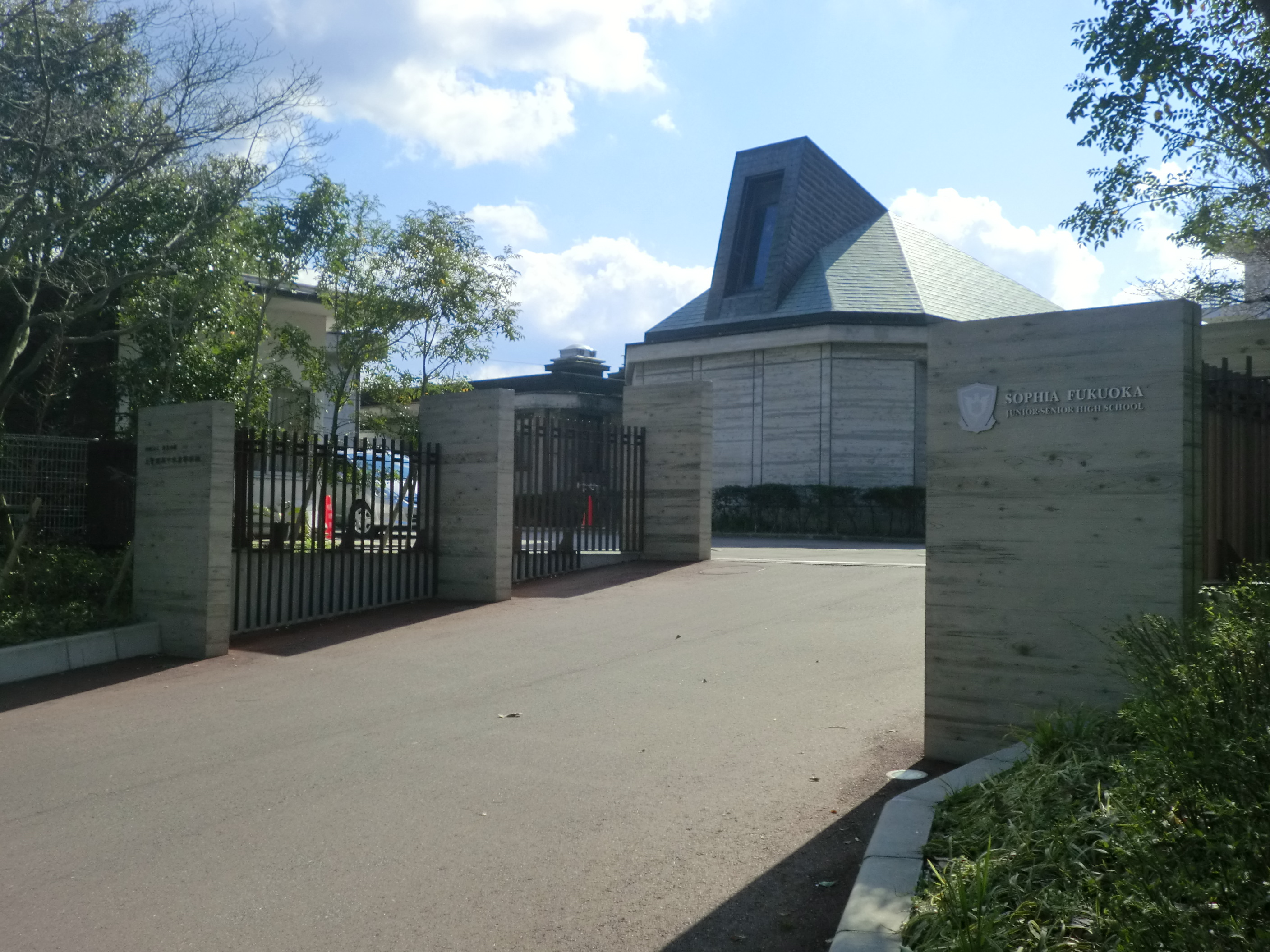 Entrance of Sophia Fukuoka High School in Fukuoka City, Fukuoka Prefecture, Japan